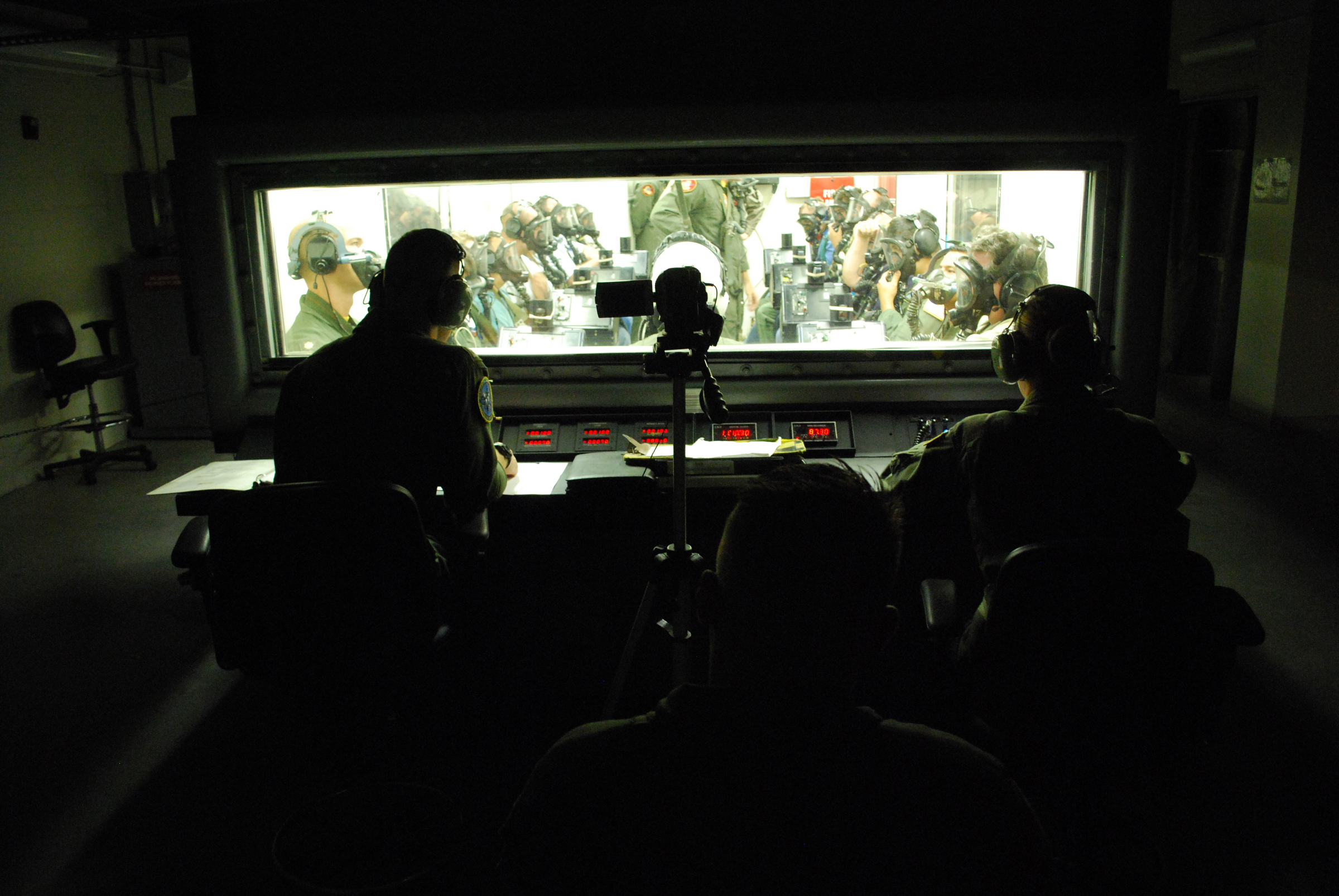 JACKSONVILLE, Fla. (June 3, 2009) Students sit in the hypobaric chamber at the Aviation Survival Training Center to simulate the effects of high altitude on the body. The students determine what their individual hypoxia, or low oxygen, symptoms are so they know how to counter it when flying. The hypobaric chamber test is in the first part of a two-day course at the training facility. (U.S. Navy photo by Mass Communication Specialist 1st class Monica Nelson/Released)